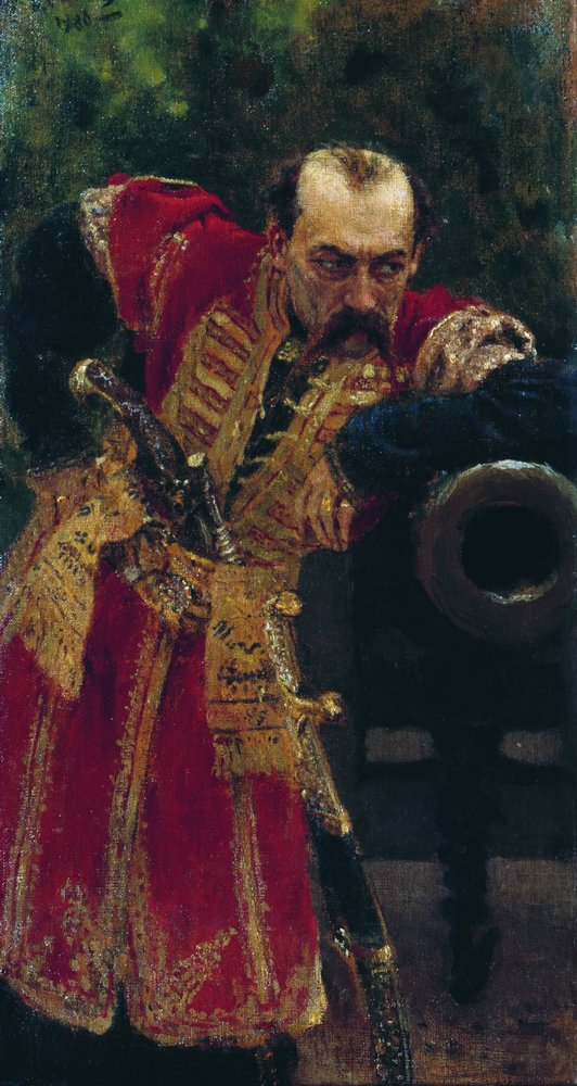 Zaporozhian colonel. Study for the picture The Reply of the Zaporozhian Cossacks to Sultan of Turkey.